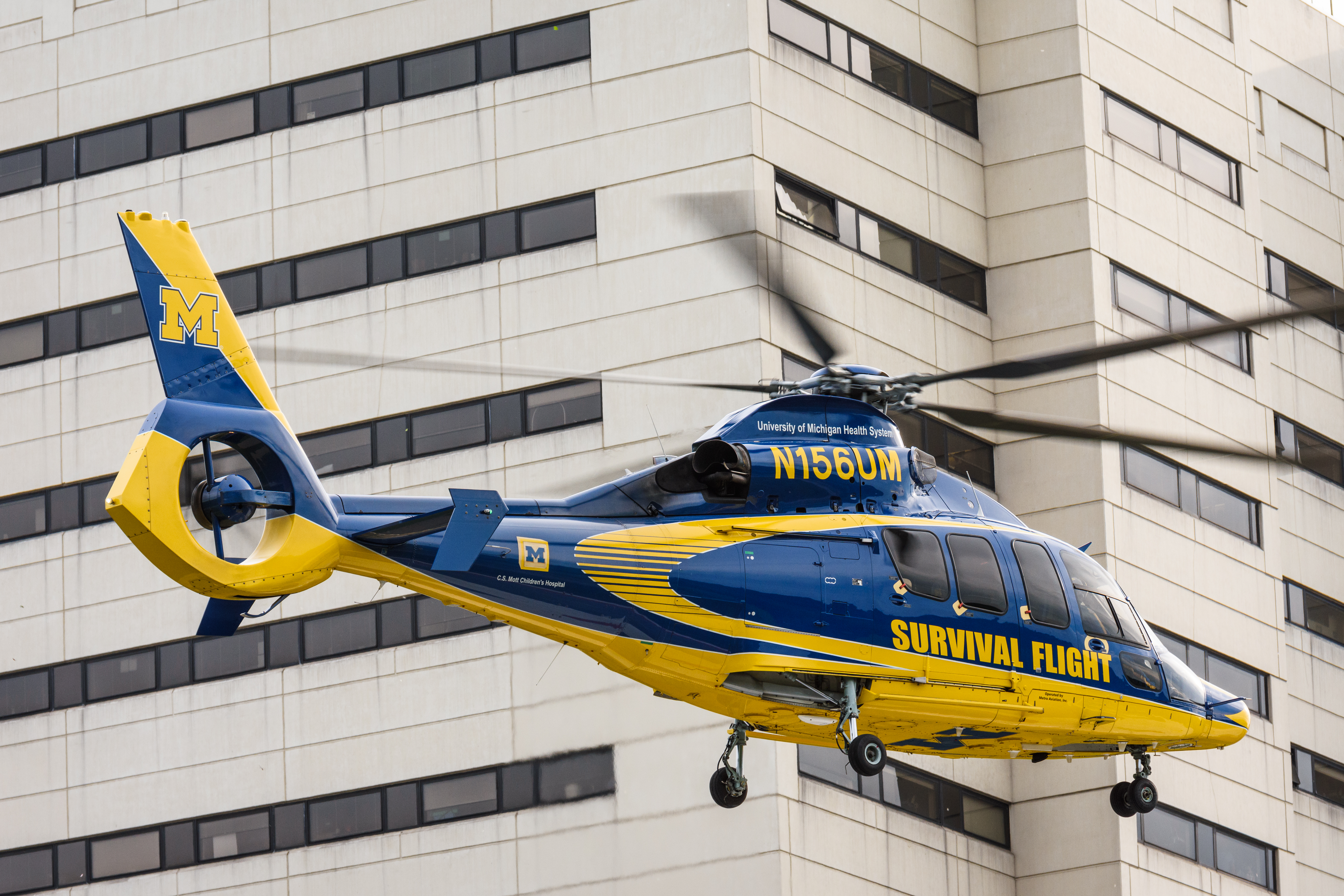 Survival Flight American Eurocopter EC155 B1 helicopter with tail number N156UM takes off from the University of Michigan Hospital's helipad in Ann Arbor, Michigan. Survival Flight provides emergency medical transport for patients and organs.